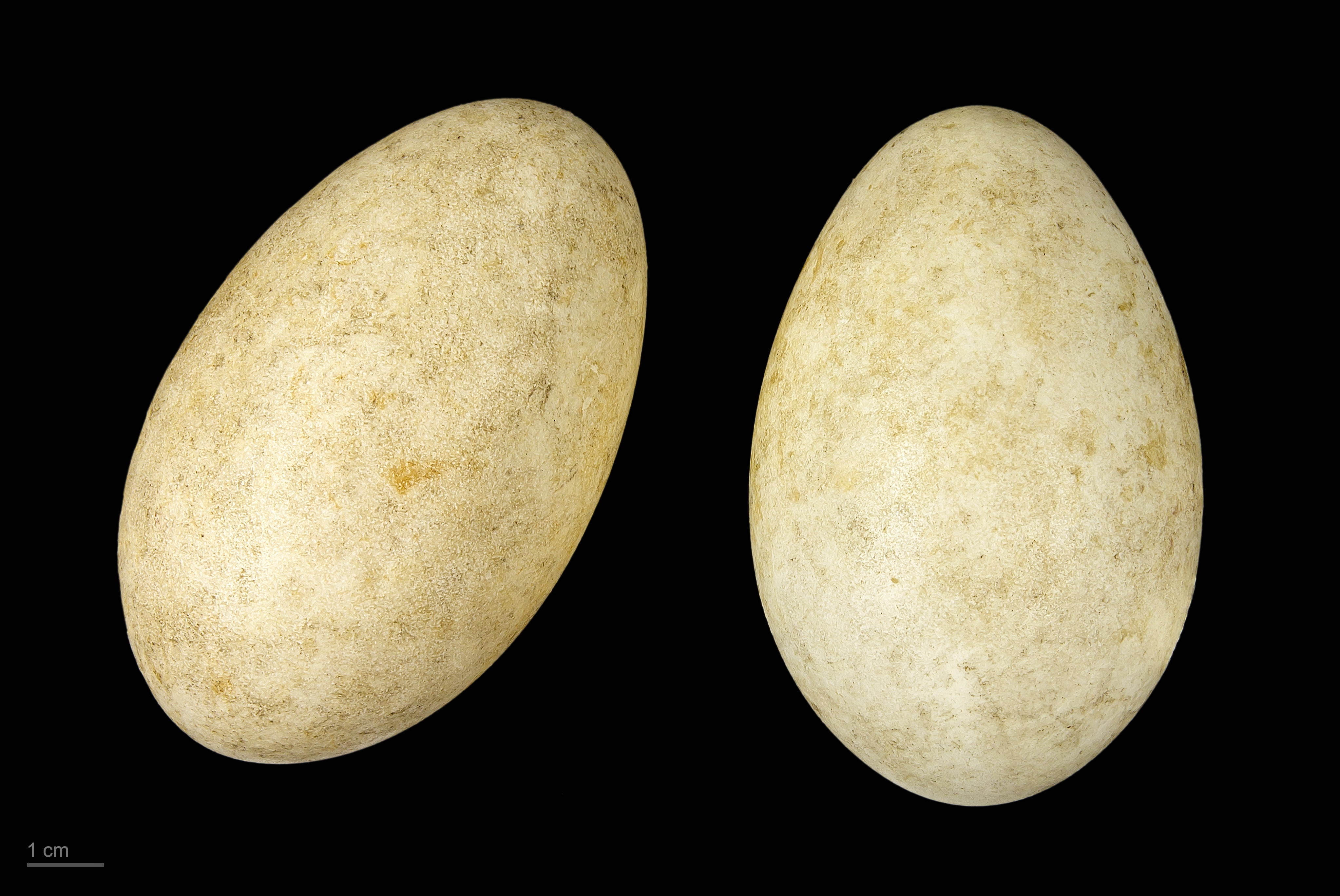 Egg of taiga bean goose Collection of Jacques Perrin de Brichambaut.